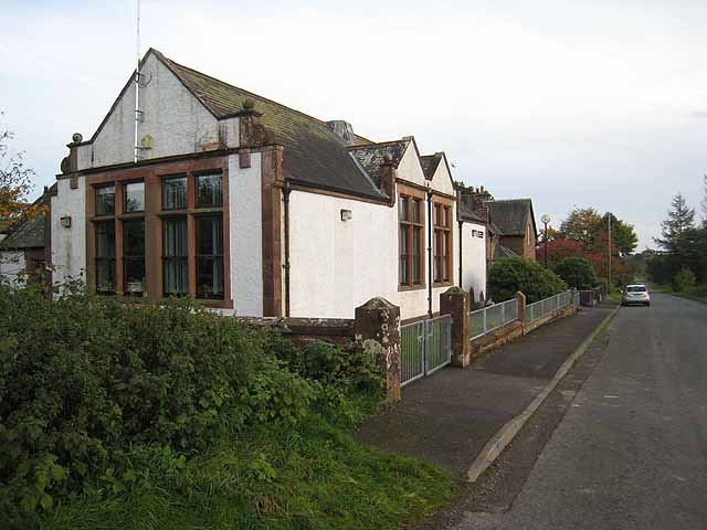 Applegarth Primary School It is not unusual to find schools in Scotland stuck out in the country.